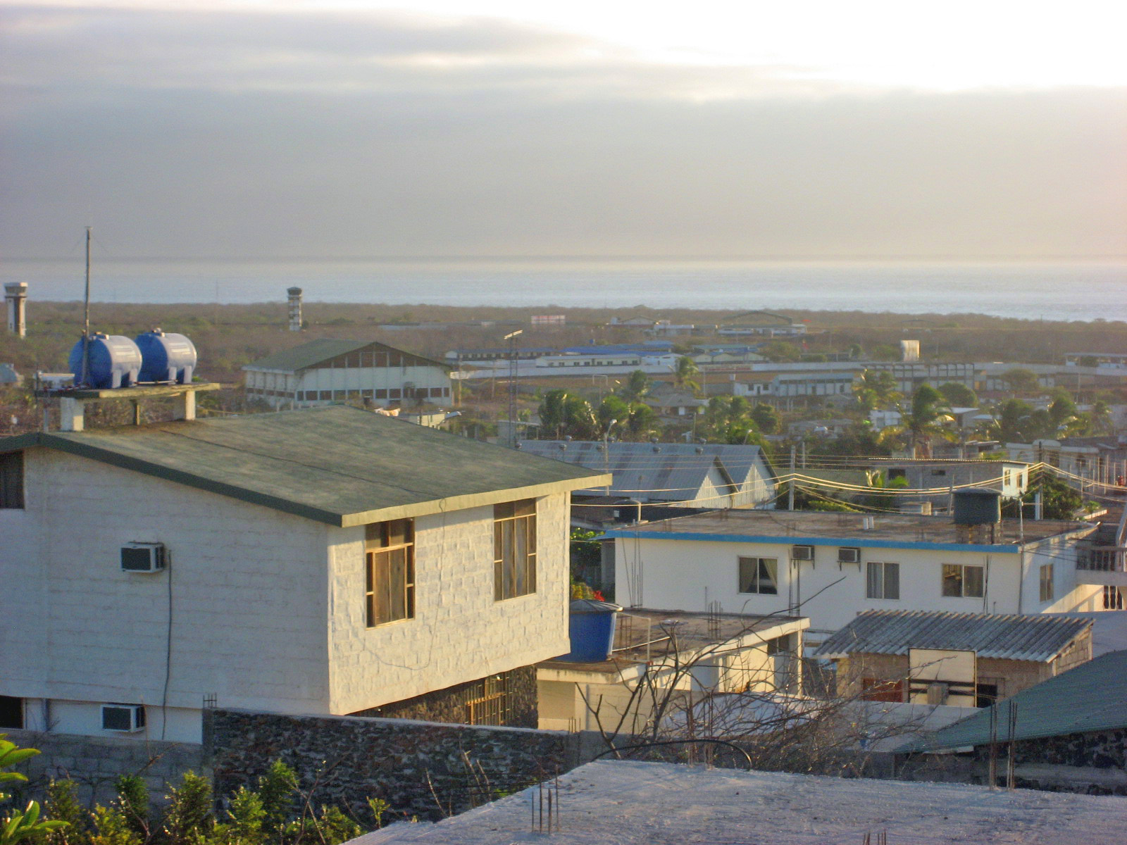 VIew of San Cristoban.